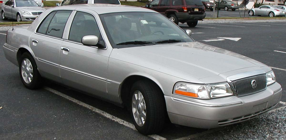 2003-2005 Mercury Grand Marquis photographed in USA.